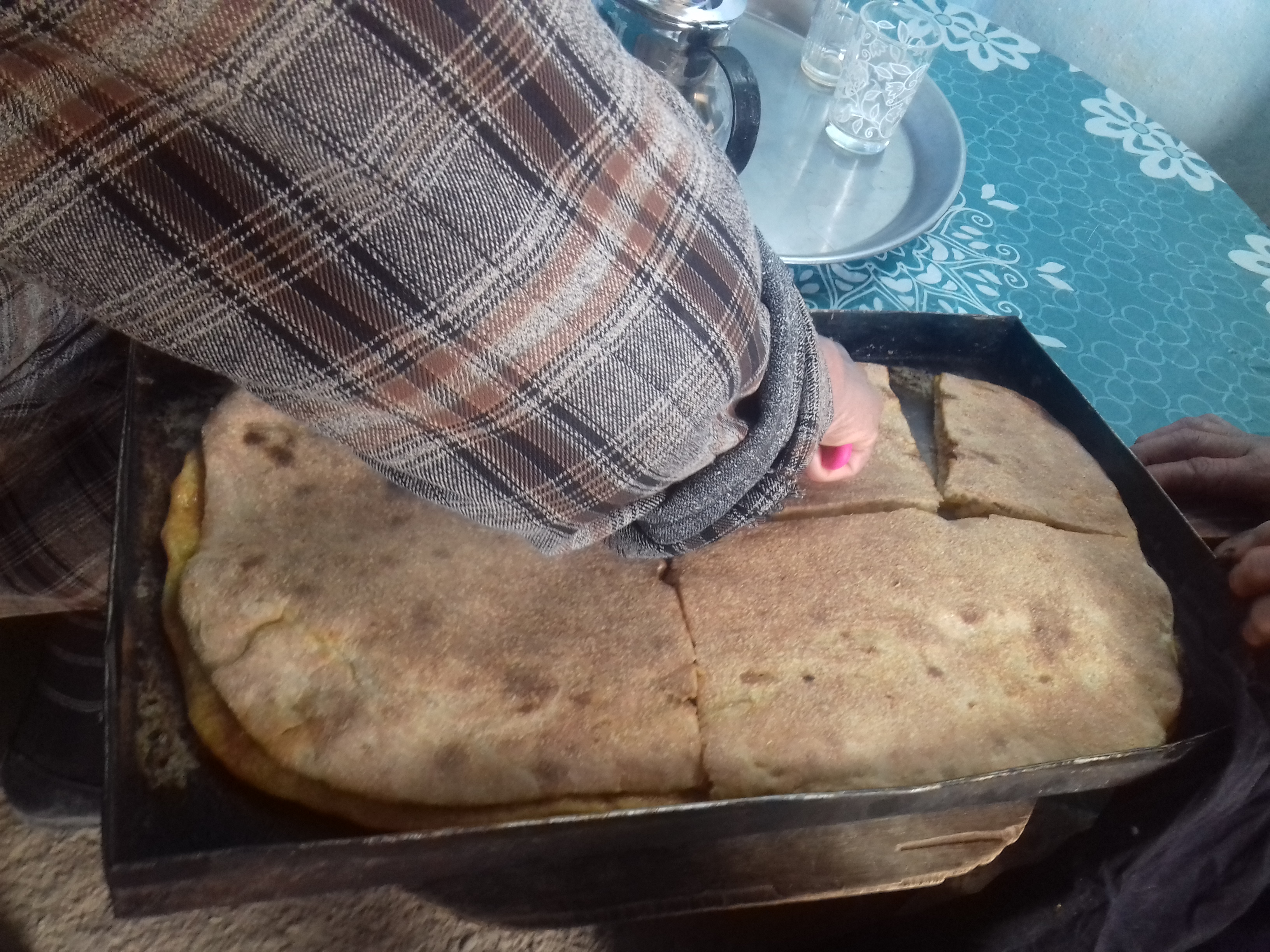 This is an image of "African people at work" from Morocco